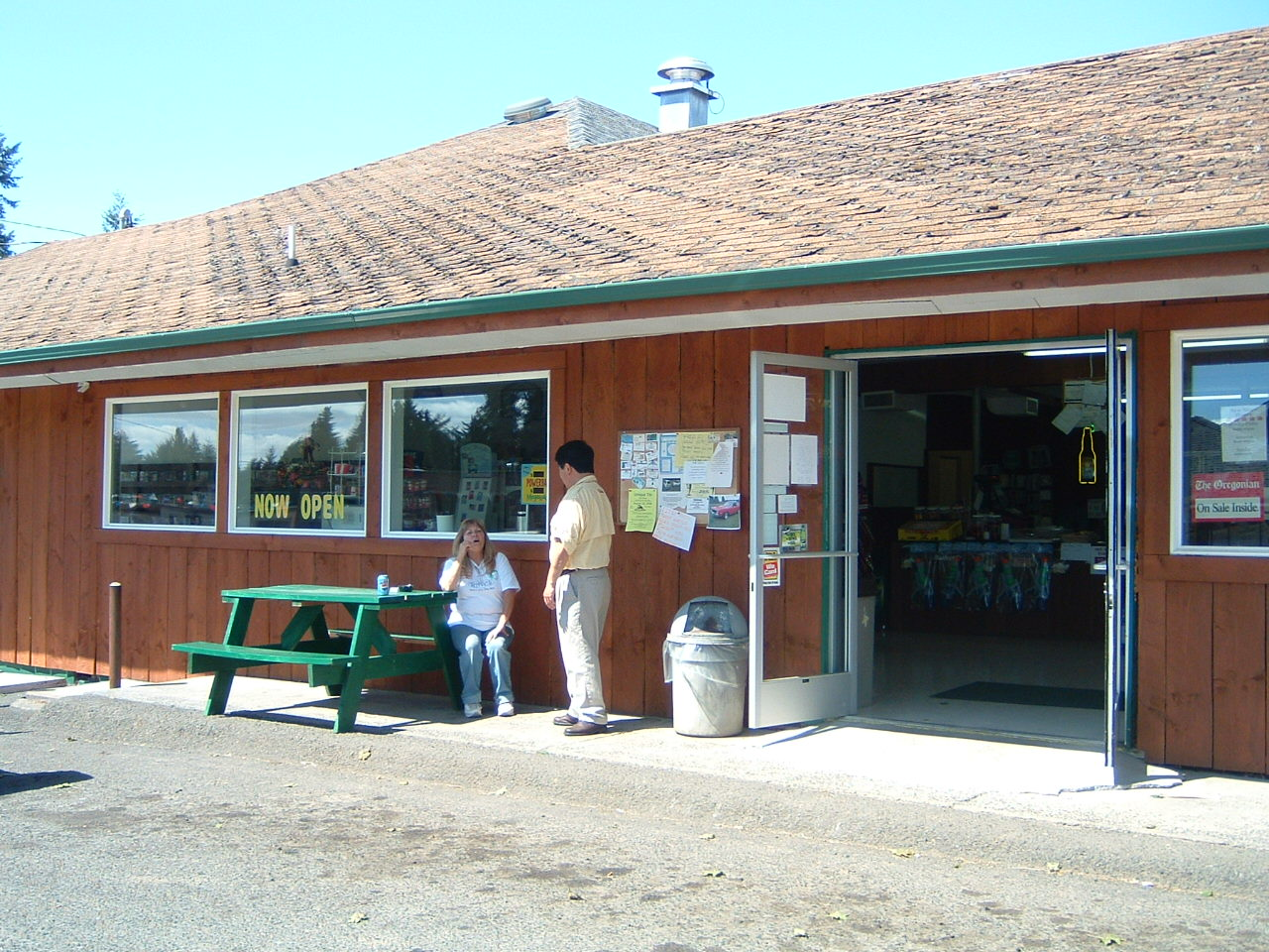 Speaking with Sandy, owner of the Alston Country Store, Alston, Oregon.